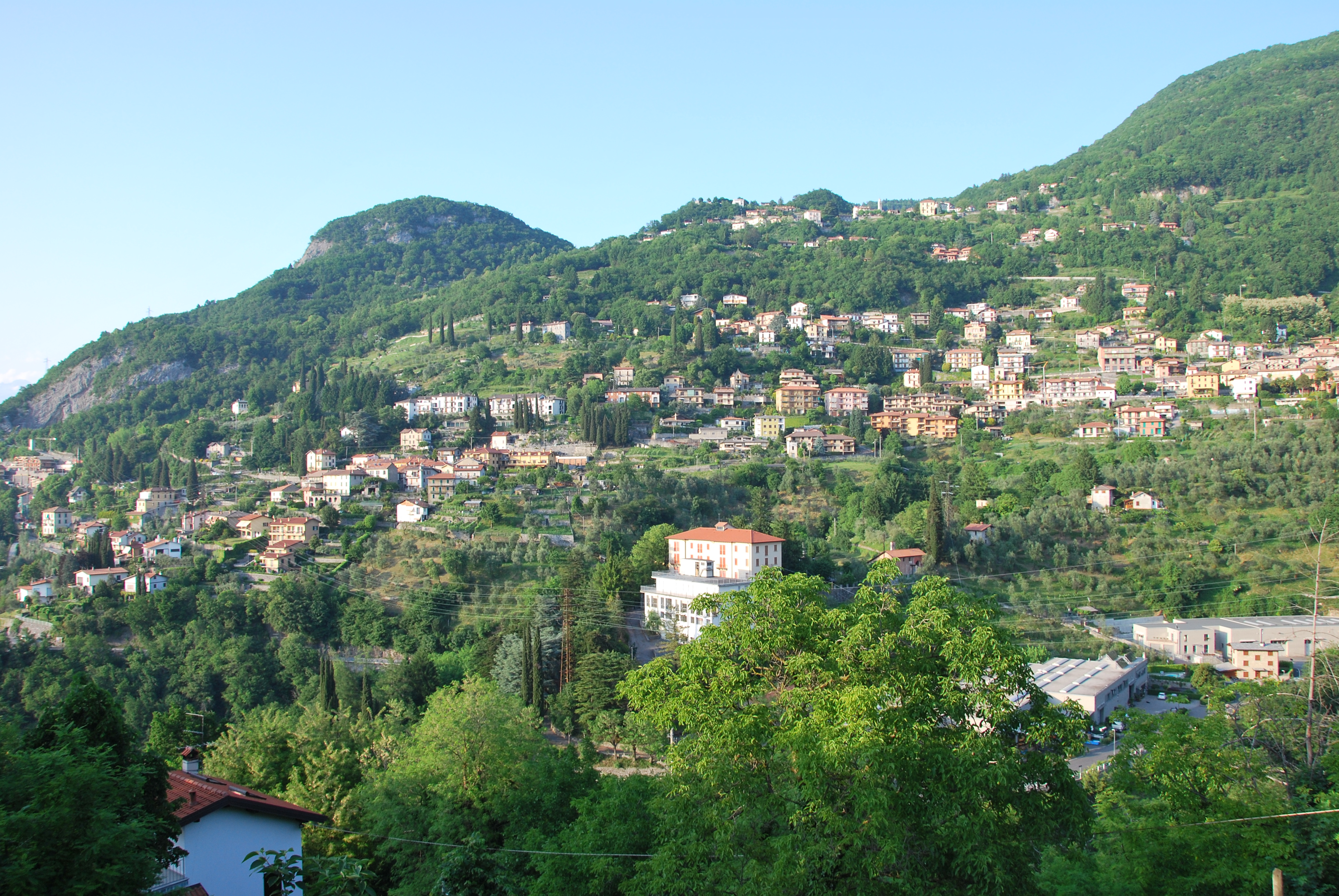 Varenna Como Lago 2009